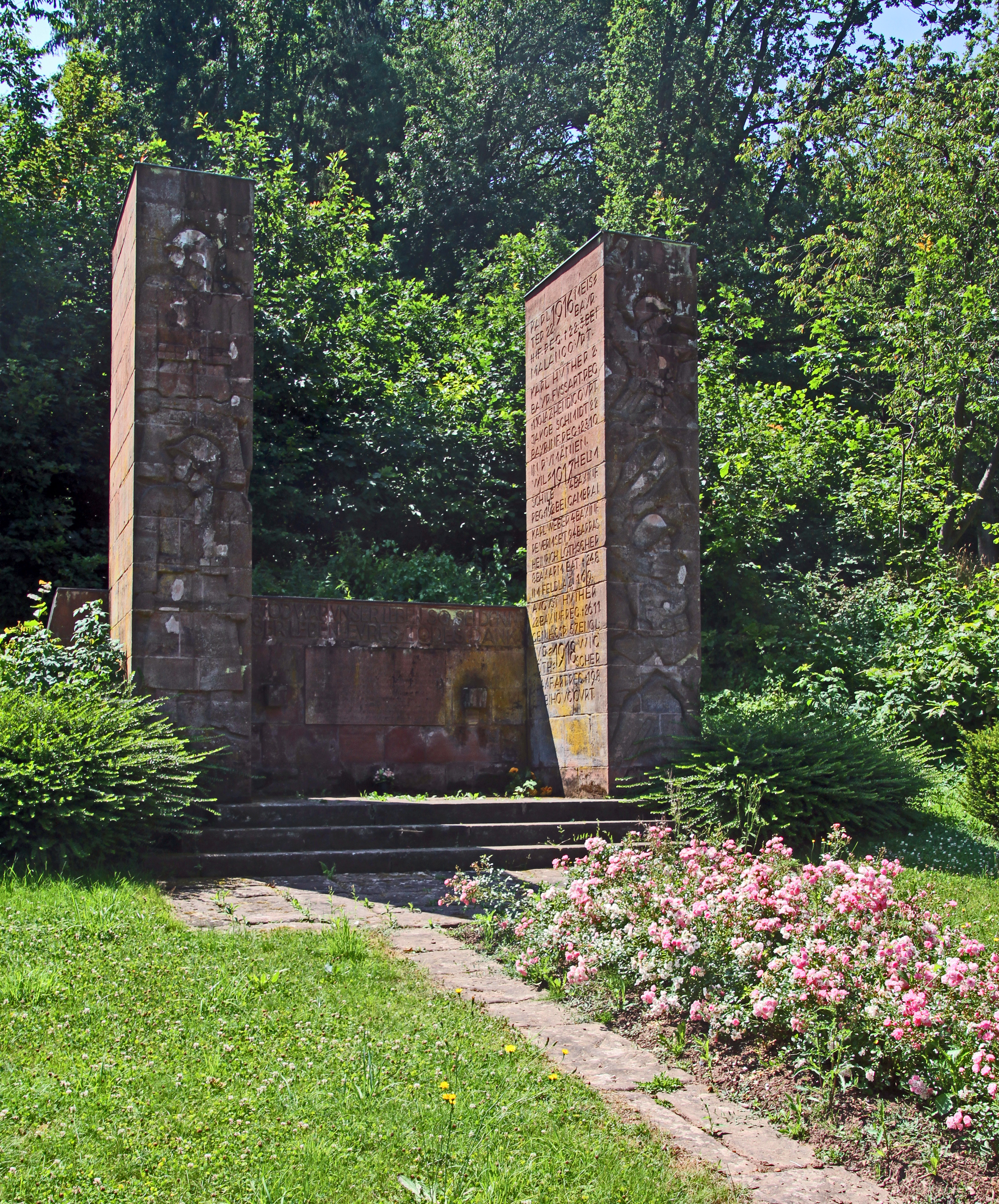 War memorial in Mauschbach